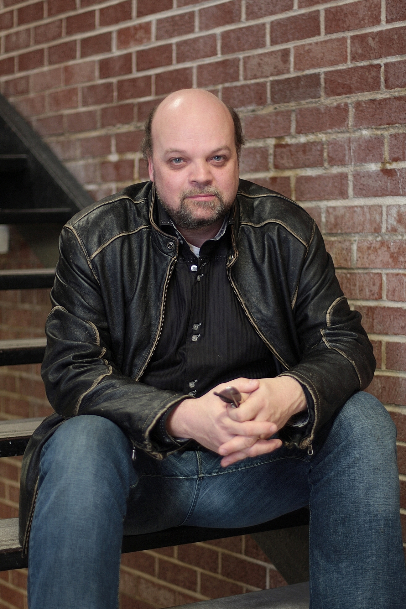 Official Promotional Photo of Peter Anthony Togni (classical composer and musician)